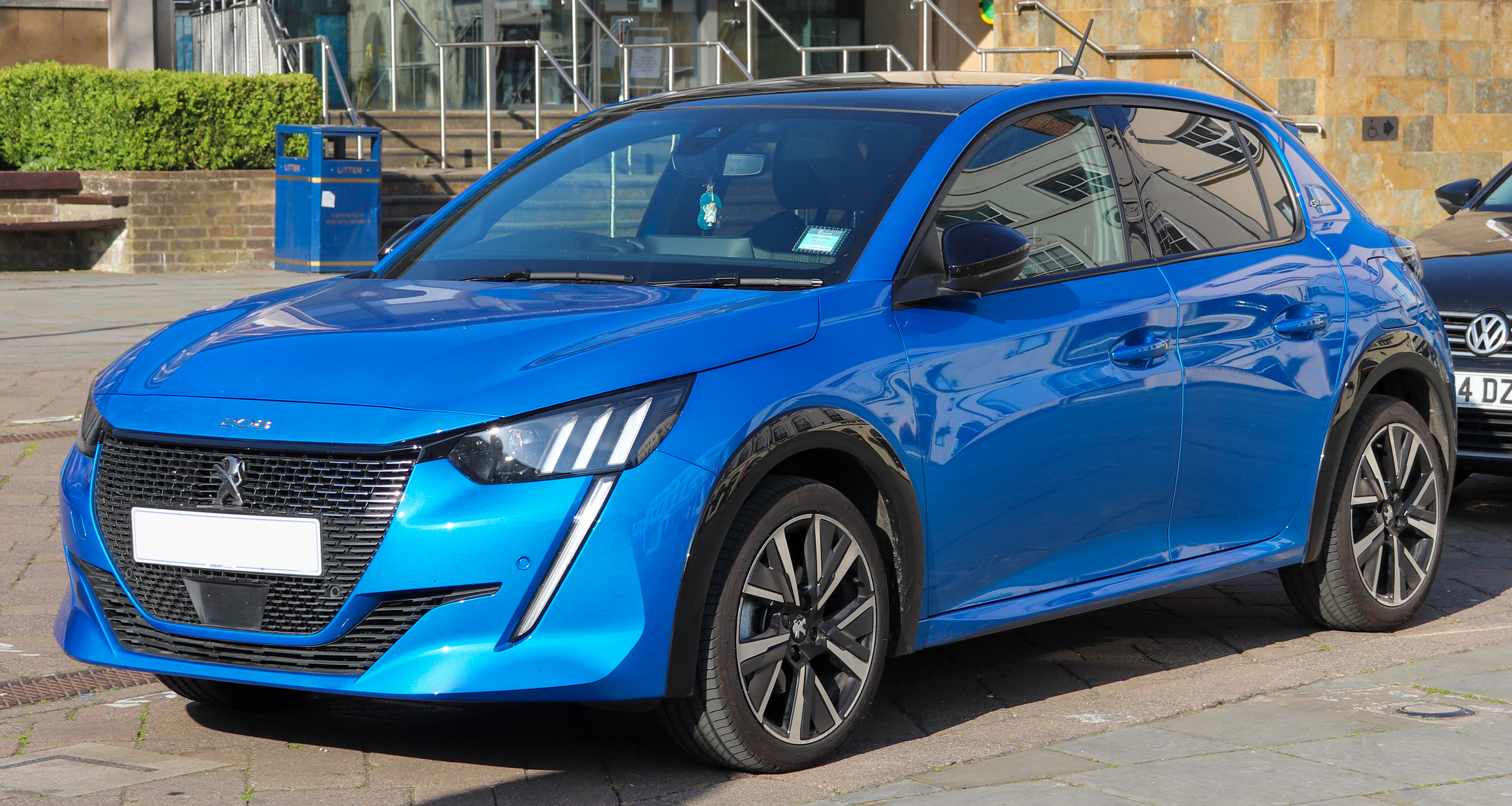 2020 Peugeot 208 GT Line PureTech 1.2 Front Taken in Warwick